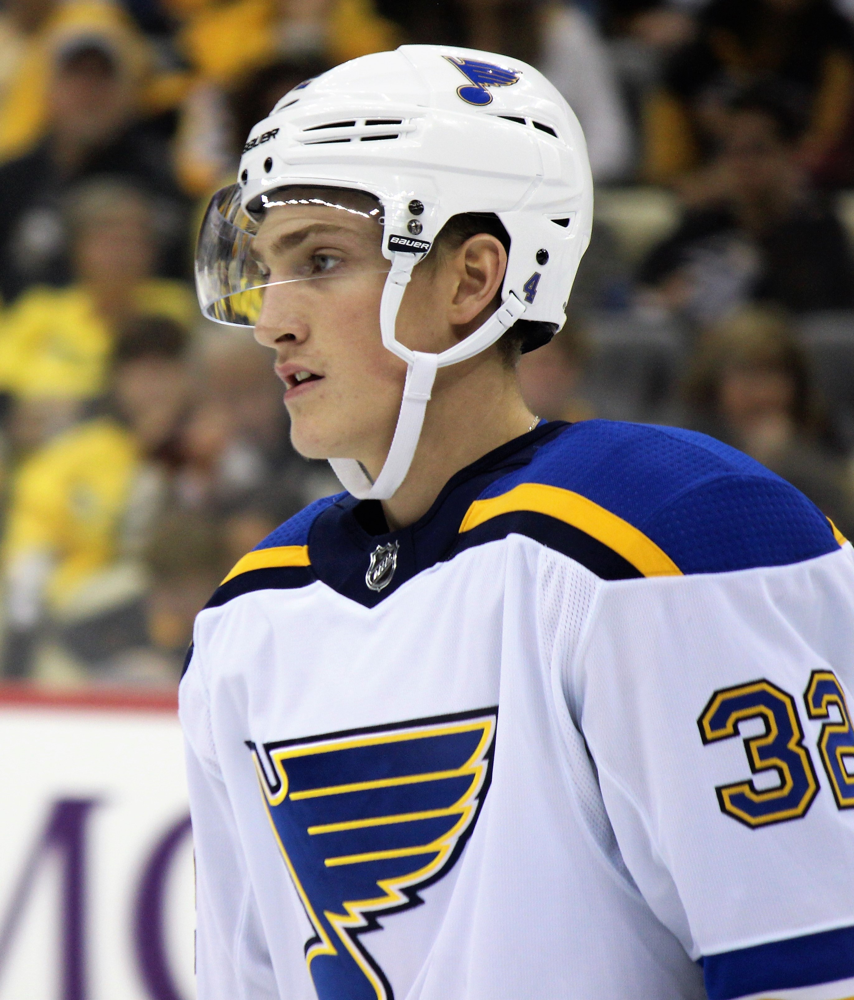 St. Louis Blues forward Tage Thompson during a game against the Pittsburgh Penguins, October 4, 2017, at PPG Paints Arena in Pittsburgh, PA.